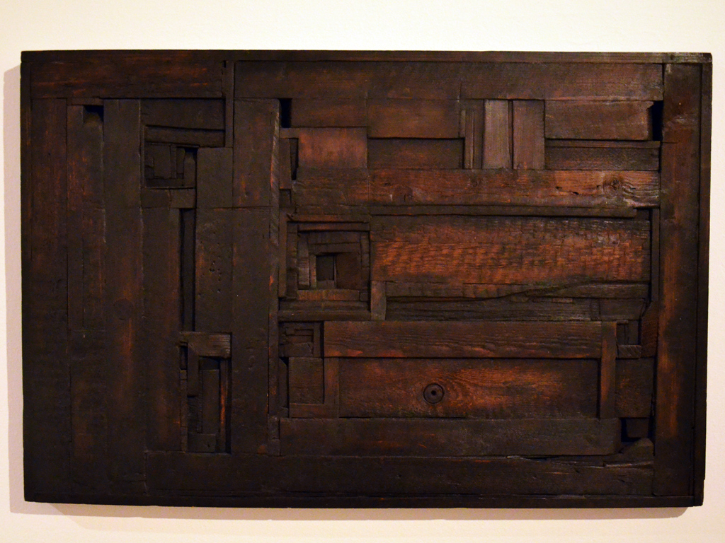 Zbyněk Sekal, The end of forest, 1960-65, Municipal gallery of Prague